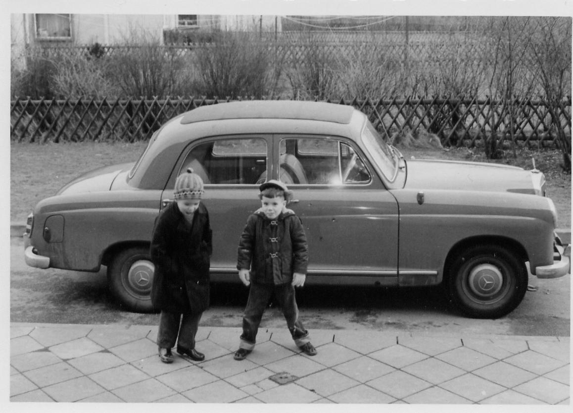 1959 Mercedes-Benz W120 Model 180. Photograph by Giles Perodeau. Family photograph taken in March 1962; imaged for Internet in January 2006.